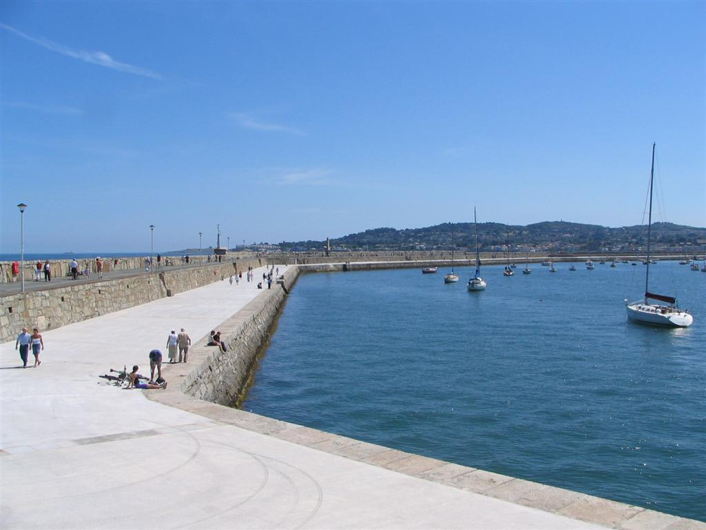 The East Pier